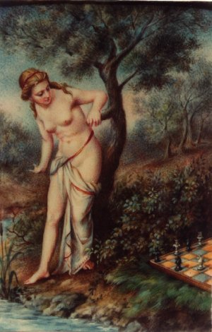 Caissa, godess of chess